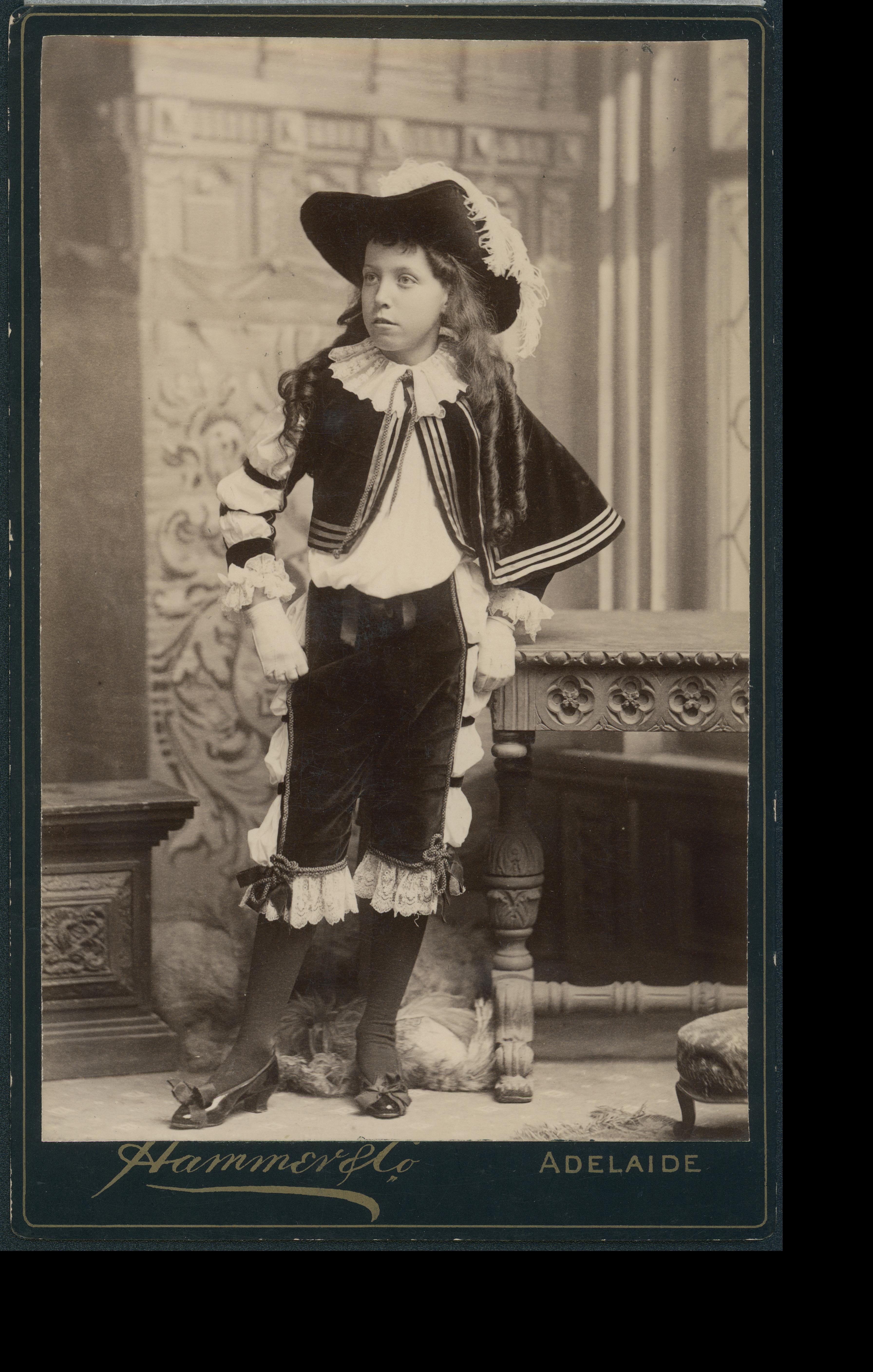 John Lavington Bonython aged 12 years old, dressed as a Courtier of Charles I